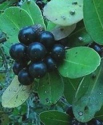 Fruiting portion of a White Milkwood (Sideroxylon inerme) - Cape Town